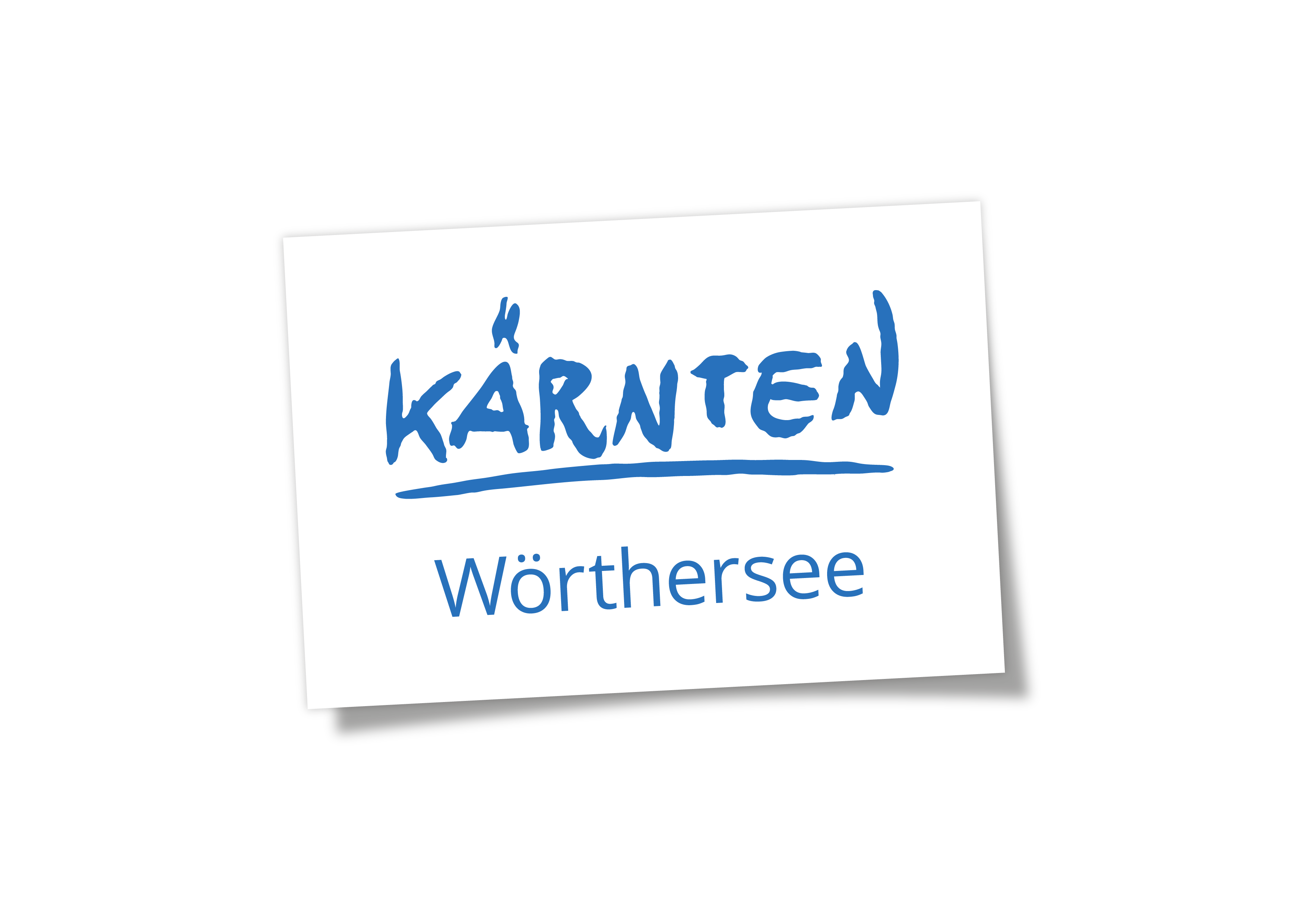 The official Logo of the region Woerthersee/Lake Woerth in Carinthia in the south of Austria.